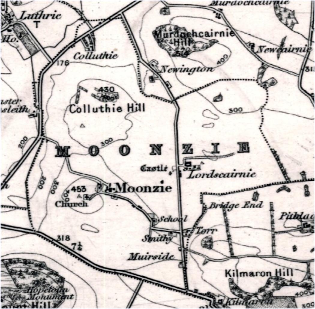 This is a map of the parish of Moonzie in the county of Fife, extracted from Ordnance Survey 1 inch to 1 mile Sheet 48 - Perth, Publication date: 1908 Reproduced with the permission of the National Library of Scotland Other information The actual content is an exact copy of material that is out of copyright due to being published in 1908 and the complete map is made available online by the National Library of Scotland